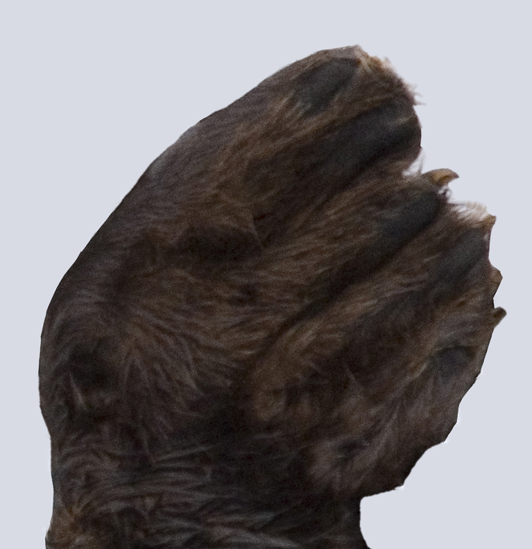 hindquarter of sea otter